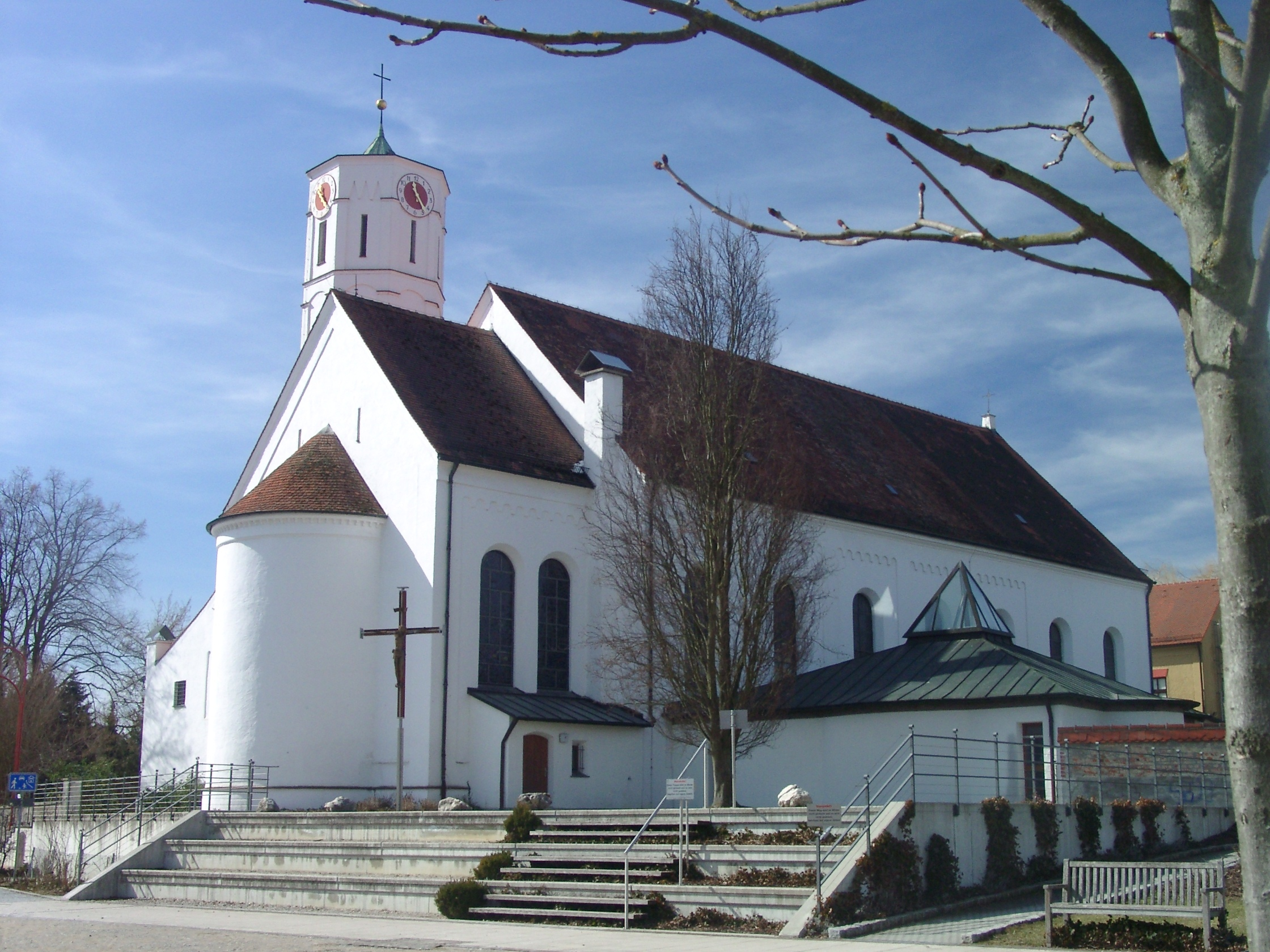 Gersthofen, view of St James' Parish Church from north-east.